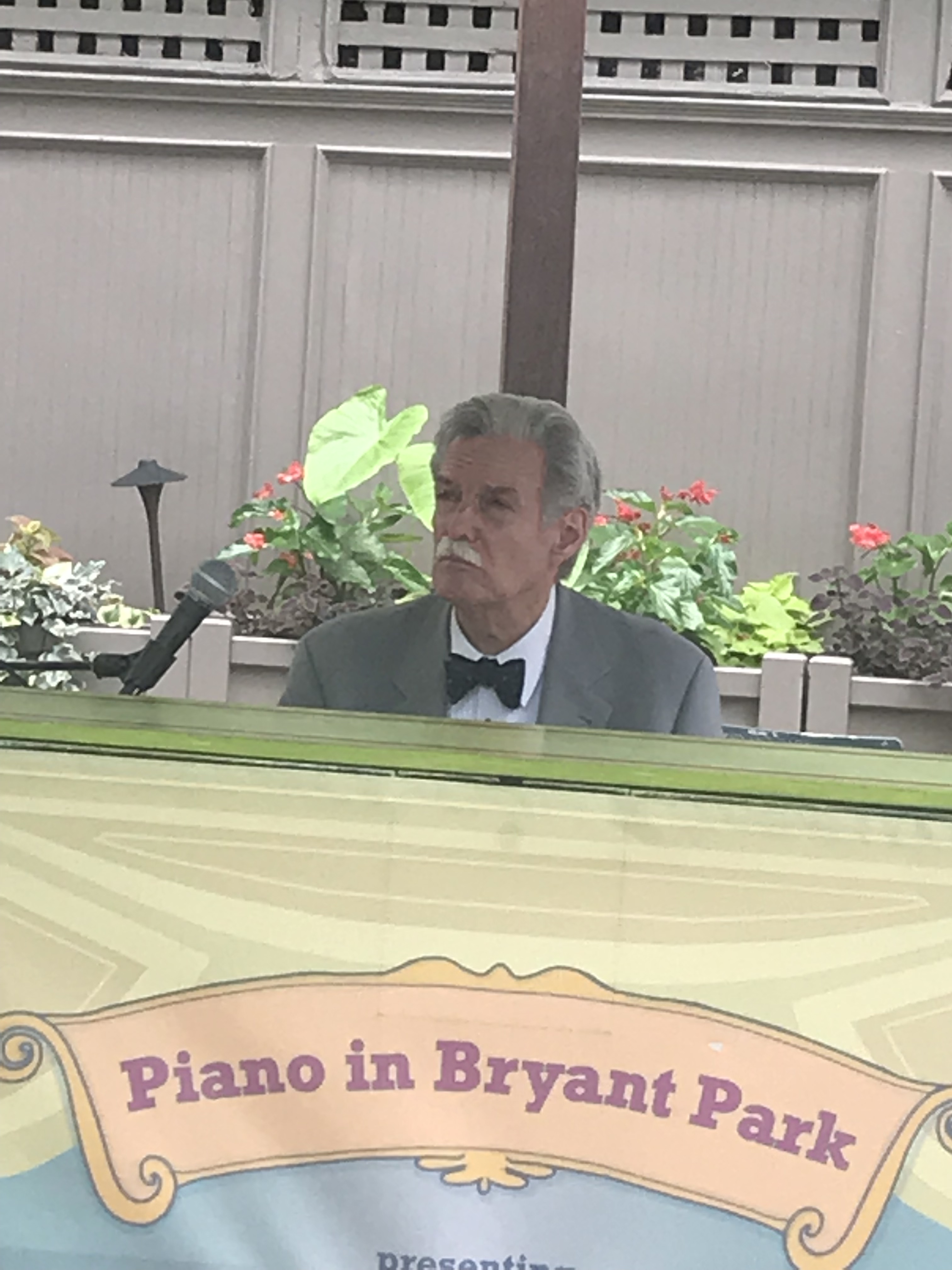 Joel Forrester playing piano on Bryant Park, New York